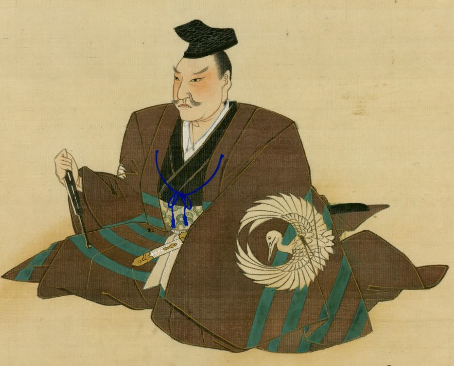 Painting of 17th century Japanese mathematician Seki Takakazu. In the collections of Japan Academy.